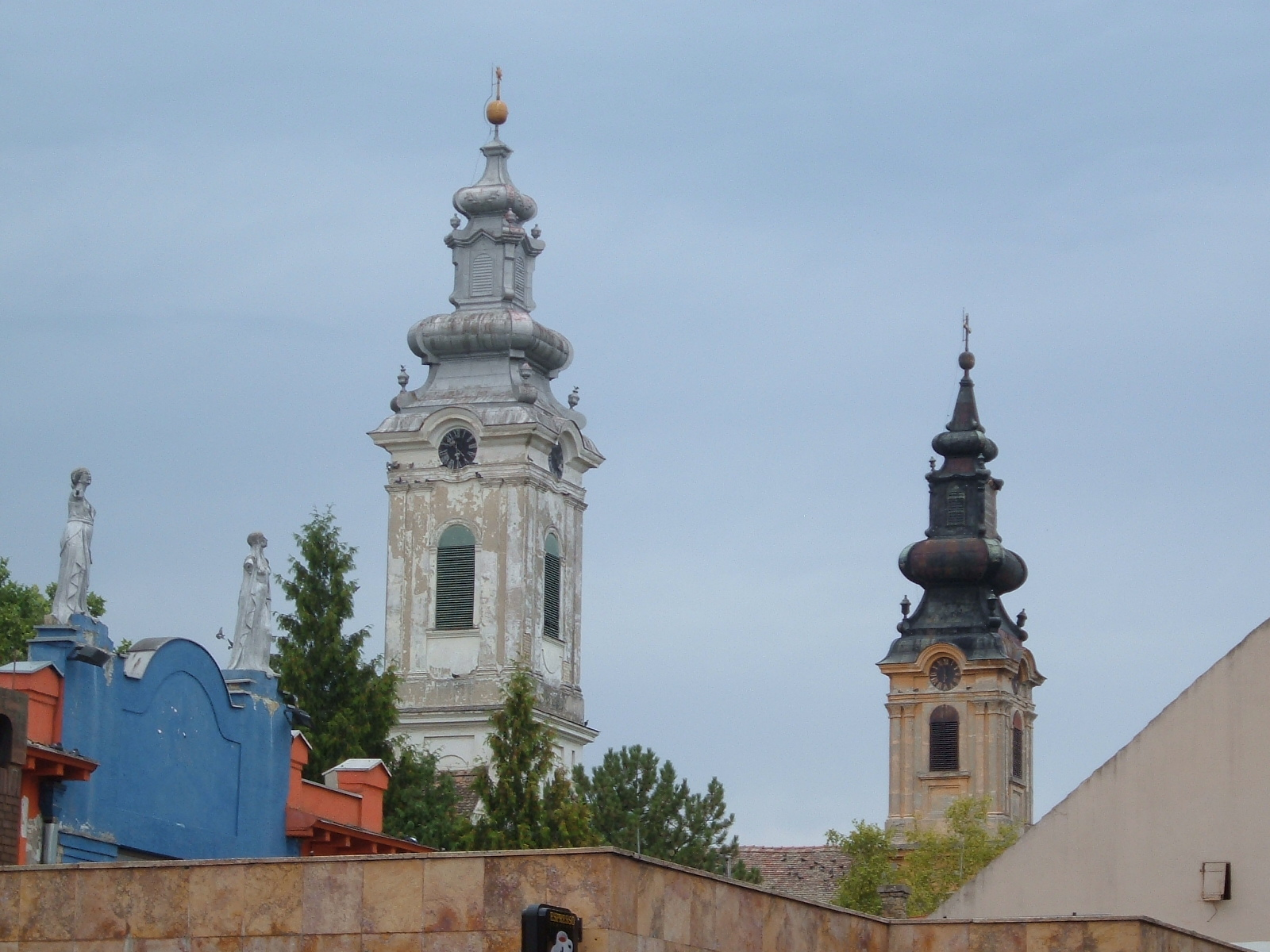 Vrbas town, Serbia, church towers.